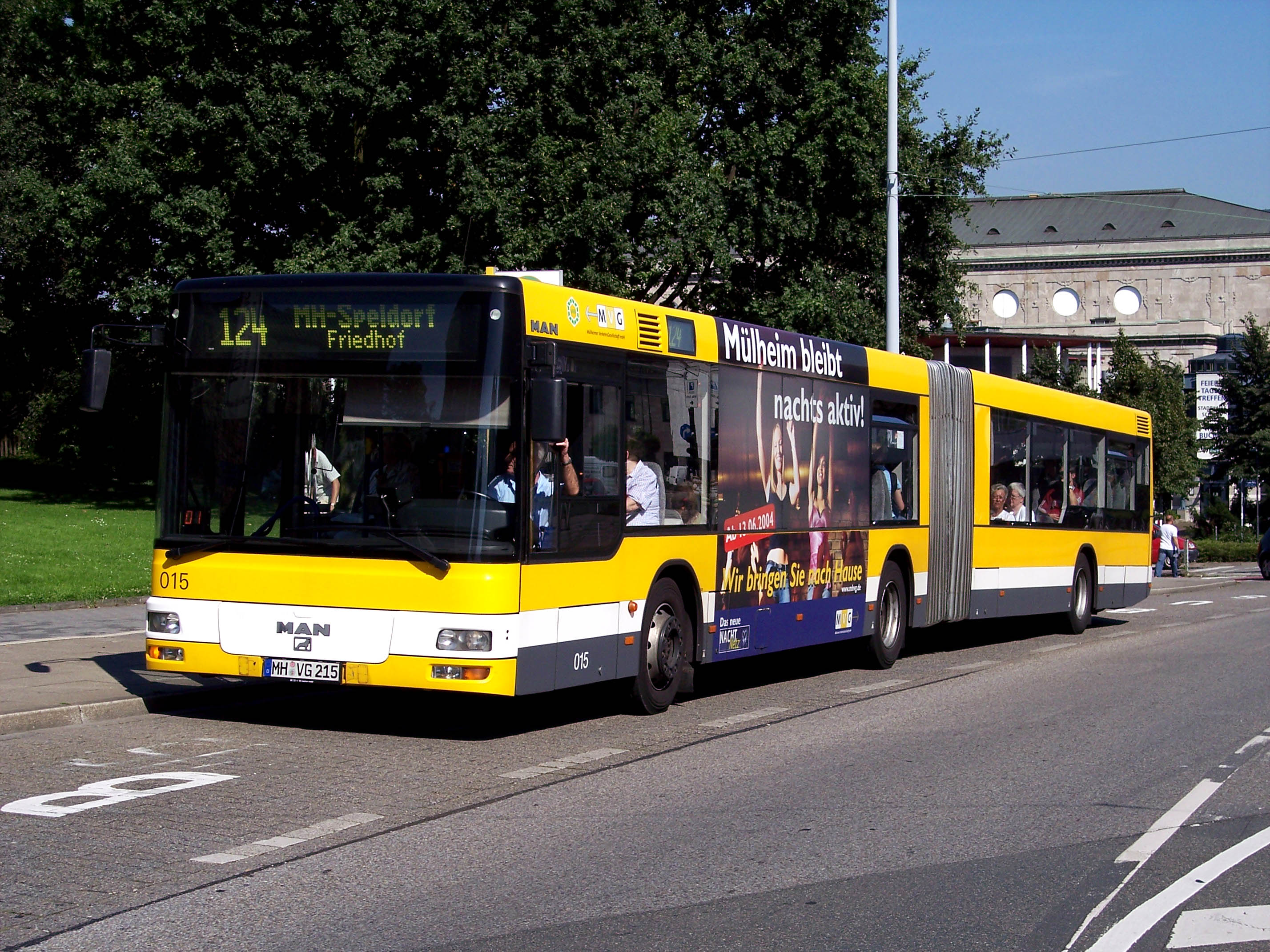 MAN NG 313 city bus (#015) in Mülheim an der Ruhr, Germany. Built 1999, Mülheimer VerkehrsGesellschaft operator.